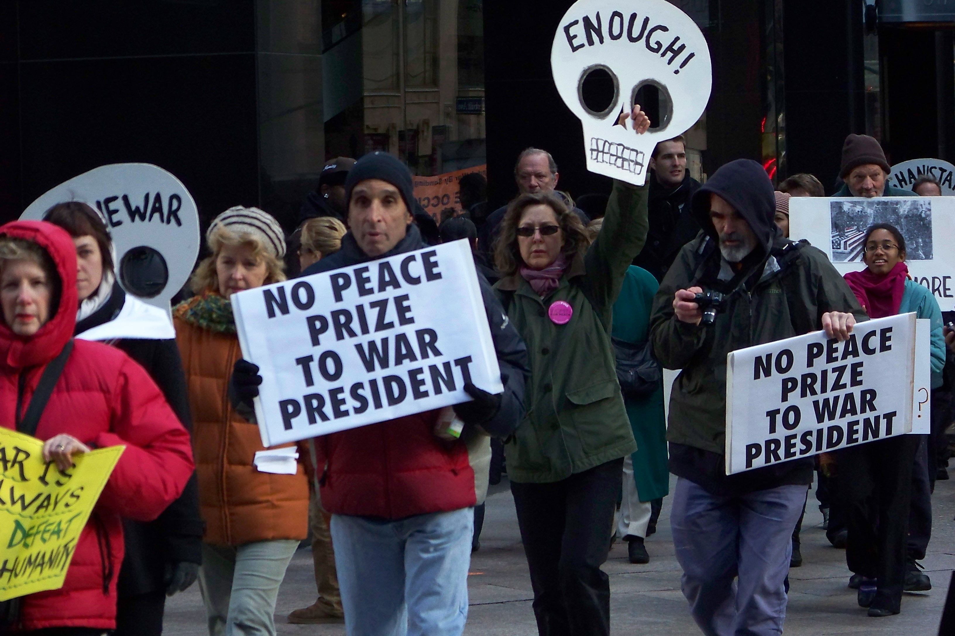 082 Coffin March